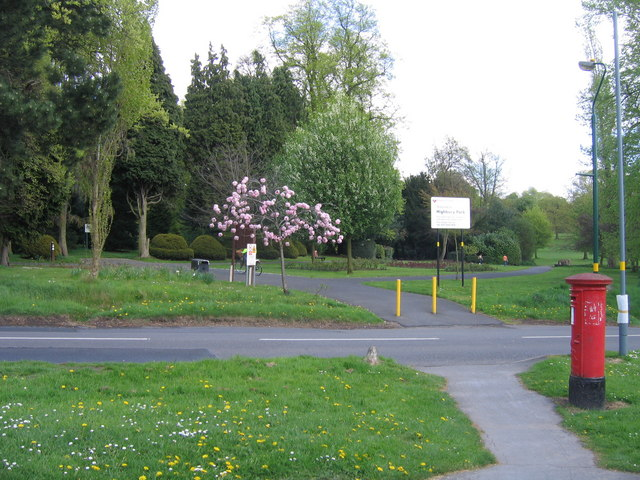 Highbury Park, Moor Green Lane Entrance & Pillar Box Just where Moor Green Land and Shuttlock Road meet.